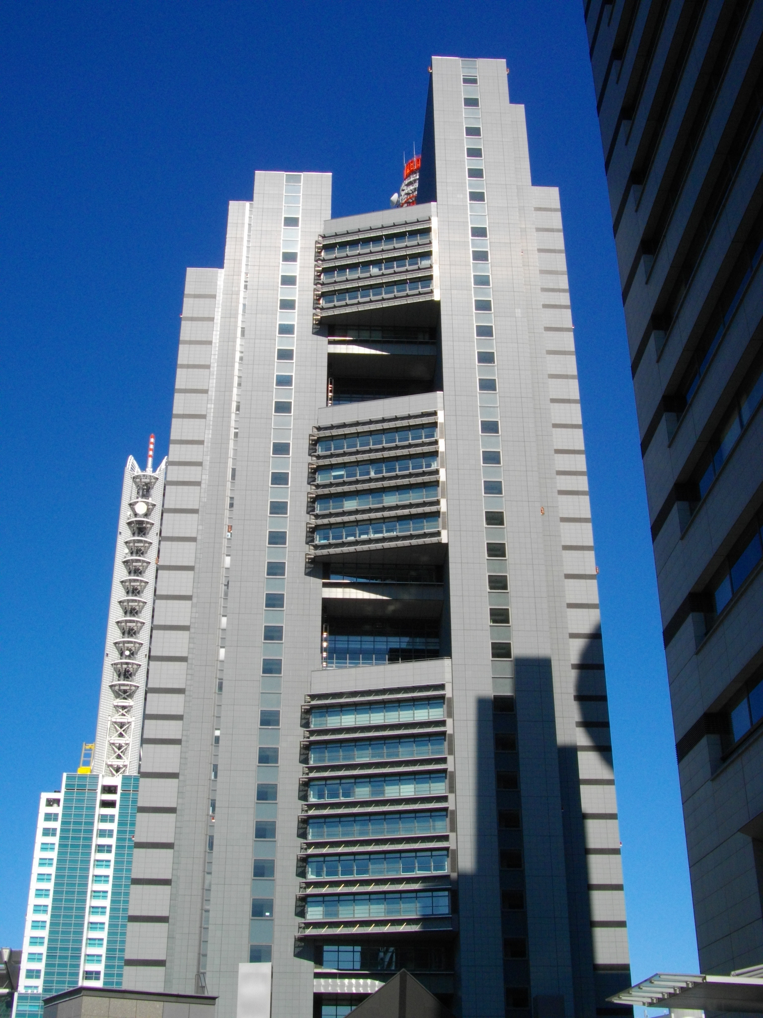 Saitama-Shintoshin National Government Building Tower-1